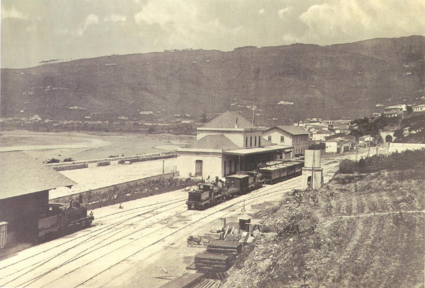 Régua Train Station, in the Douro Line, in northern Portugal. The photograph was taken before the construction of the first section of the Corgo Line, in 1906.